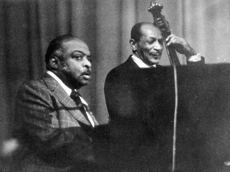 Count Basie (left) during a concert in Cologne (Germany) on October 17th 1975